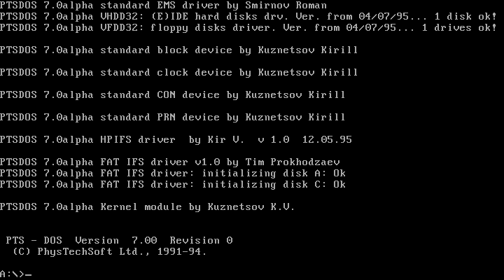 PhysTechSoft PTS - DOS Version 7.00 Revision 0 (PTS-DOS 7.0 Beta version)